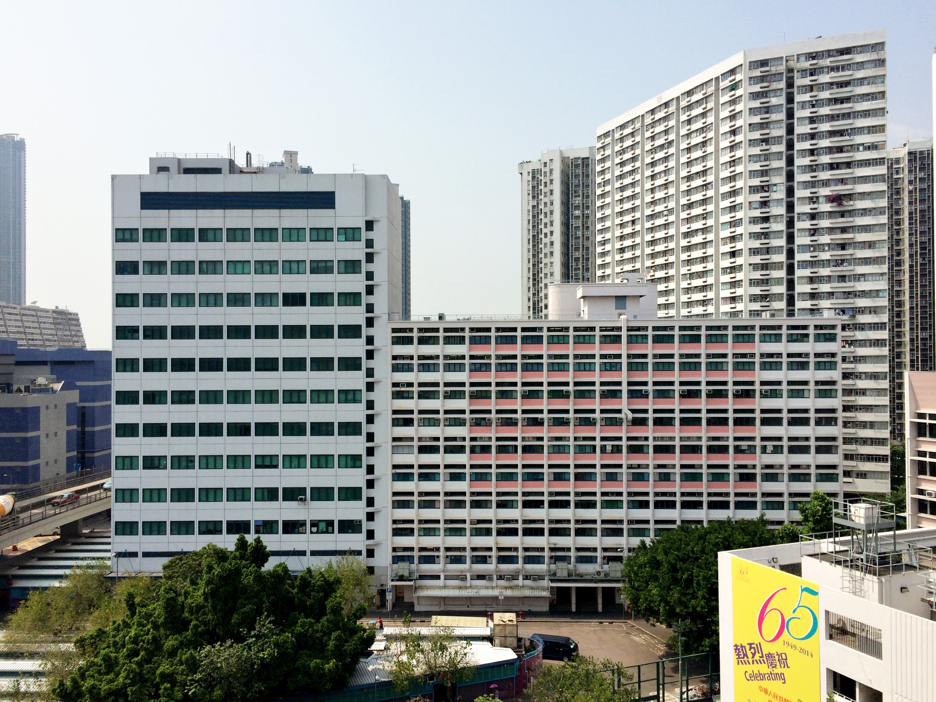 Yau Ma Tei Jockey Club General Outpatient Clinic (lower block on the right) and Yau Ma Tei Specialist Clinic Extension (higher block on the left)